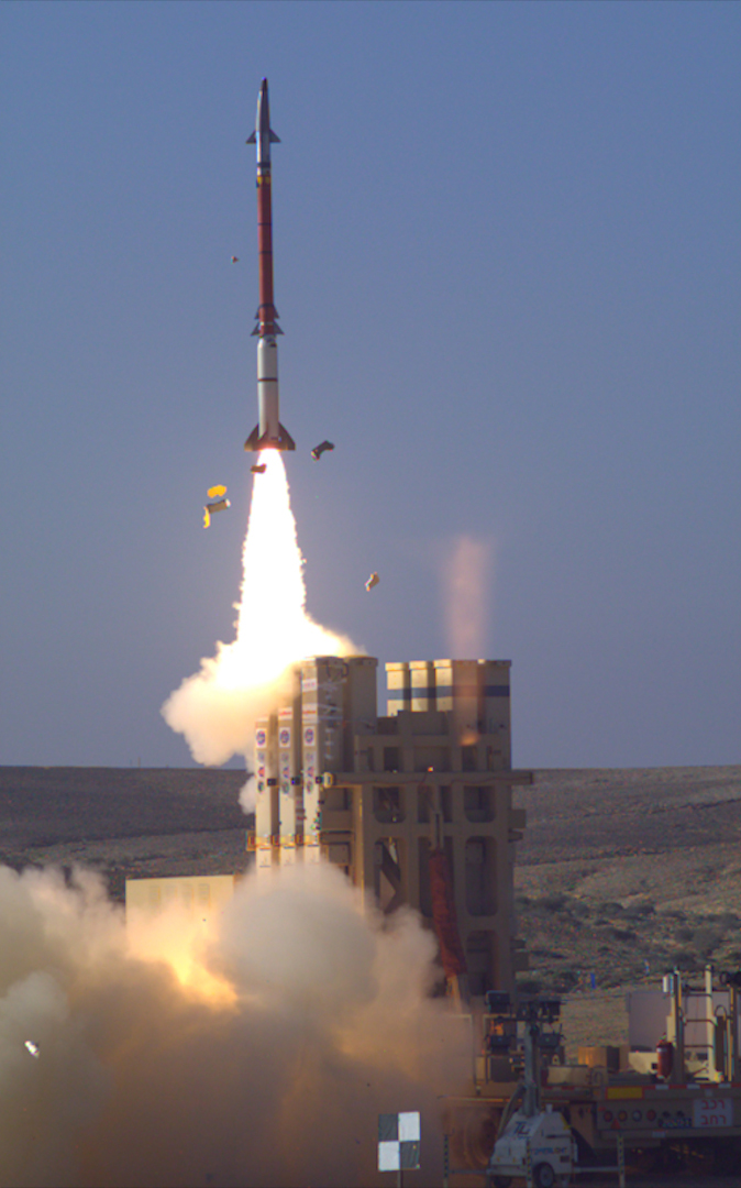 The Israel Missile Defense Organization (IMDO) of the Directorate of Defense Research and Development (DDR&D) and the U.S. Missile Defense Agency (MDA) successfully completed a series of tests of the David's Sling Weapon System. This test series, designated David's Sling Test-4 (DST-4), was the fourth series of tests of the David's Sling Weapon System and the final milestone before declaring delivery of an operational system to the Israeli Air Force in 2016.